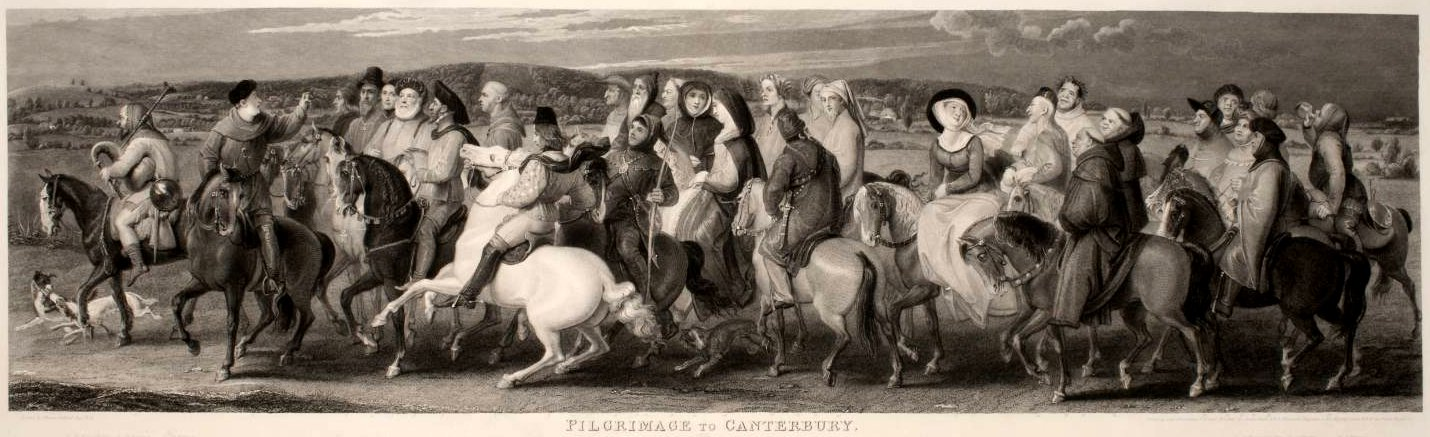 After Thomas Stothard, The Pilgrimage to Canterbury, engraved by Louis Schiavonetti and James Heath 1809-17 Artwork details Artist After Thomas Stothard (1755‑1834) Title The Pilgrimage to Canterbury, engraved by Louis Schiavonetti and James Heath Date1809-17 MediumEtching and engraving on paper Dimensionsunconfirmed: 269 x 958 mm Collection Tate AcquisitionPurchased 1994 Reference T06857 Robert Cromek, who had commissioned the original painting of the Canterbury Pilgrims from Stothard, was eager to have the image engraved. In fact this engraving was not published until 1817, by which time Cromek had died. The print was a great commercial success. In 1855 it was said that ‘few, if any, engravings of that period were so popular with the public’. A key to the figures in the picture is printed under the image.